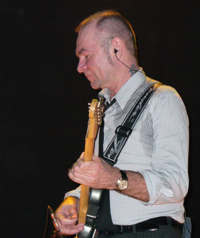 Wojciech Waglewski - founder and leader of band Voo Voo